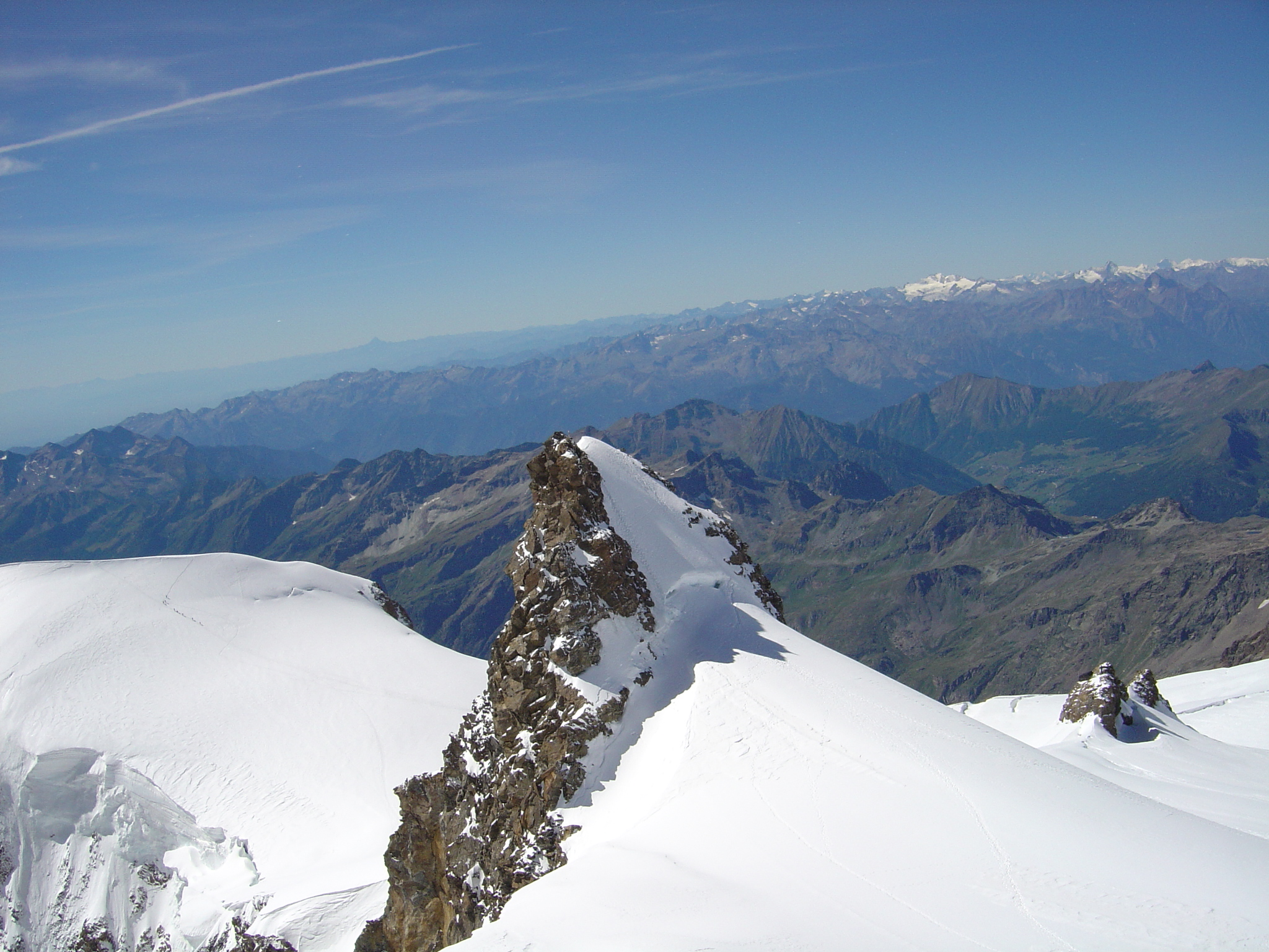 Corno Nero (Schwarzhorn) viewed from the top of Ludwigshoehe